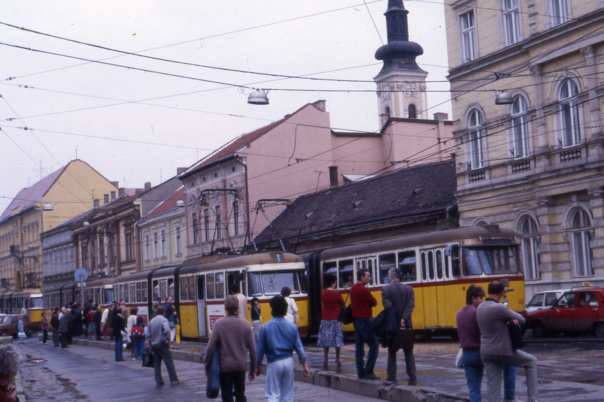 Ganz-built articulated trams during rush hour in Miskolc, Hungary, in 1988. Specific cars visible include numbers 142 and 144, which were built in the mid-1980s